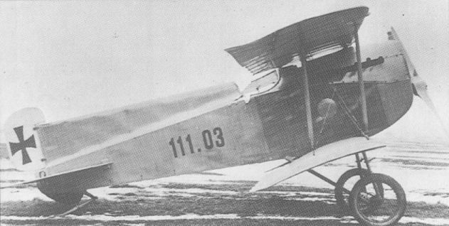 Photo of Lohner Type AA D.1 111.03 - third prototype